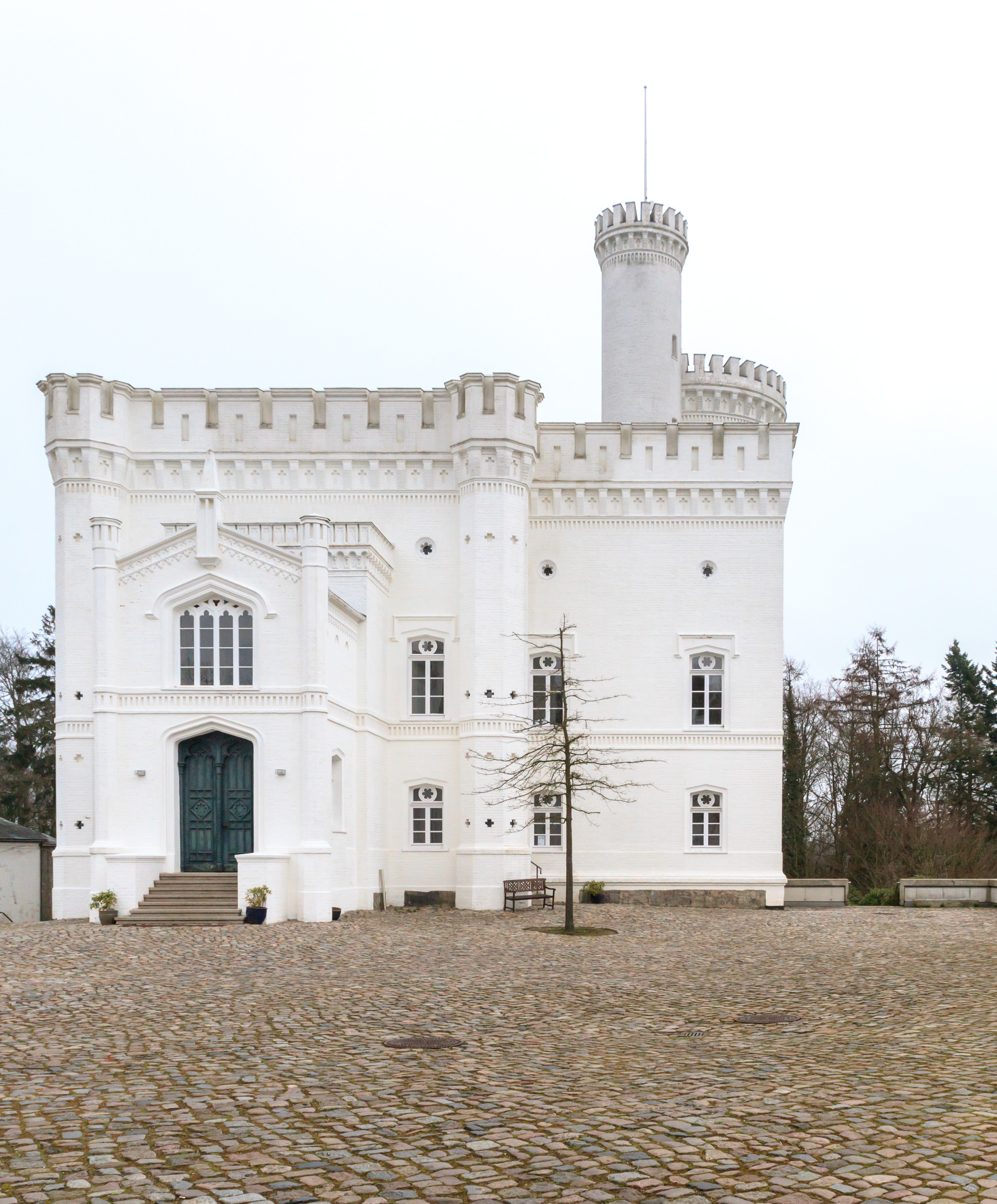 Blomenburg